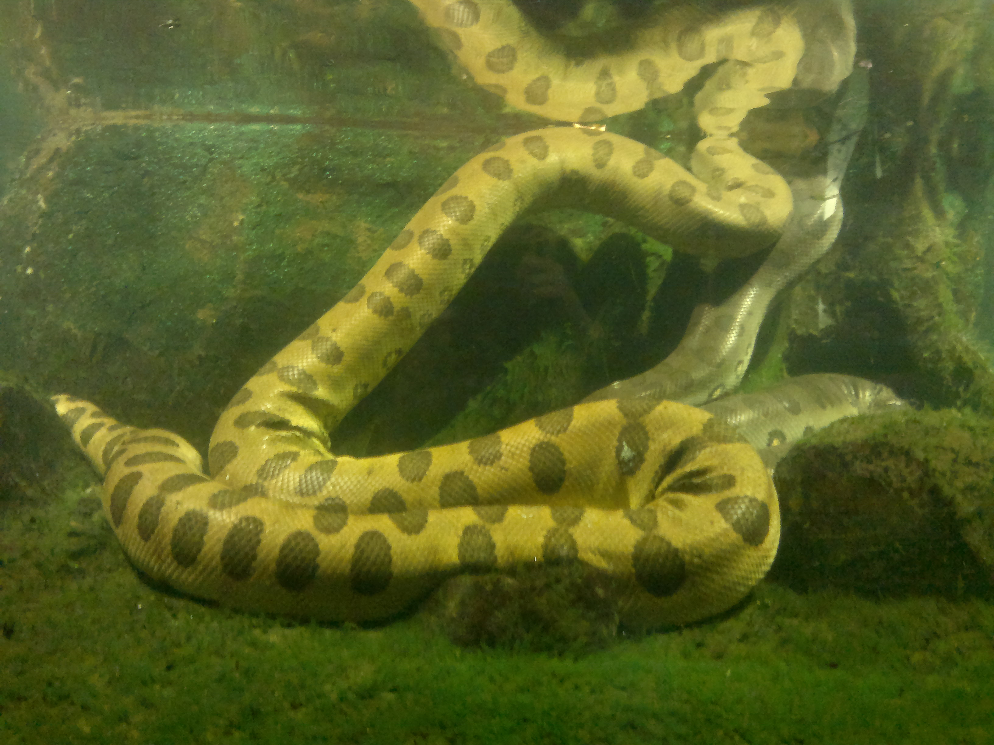 Eunectes murinus in Prague's ZOO